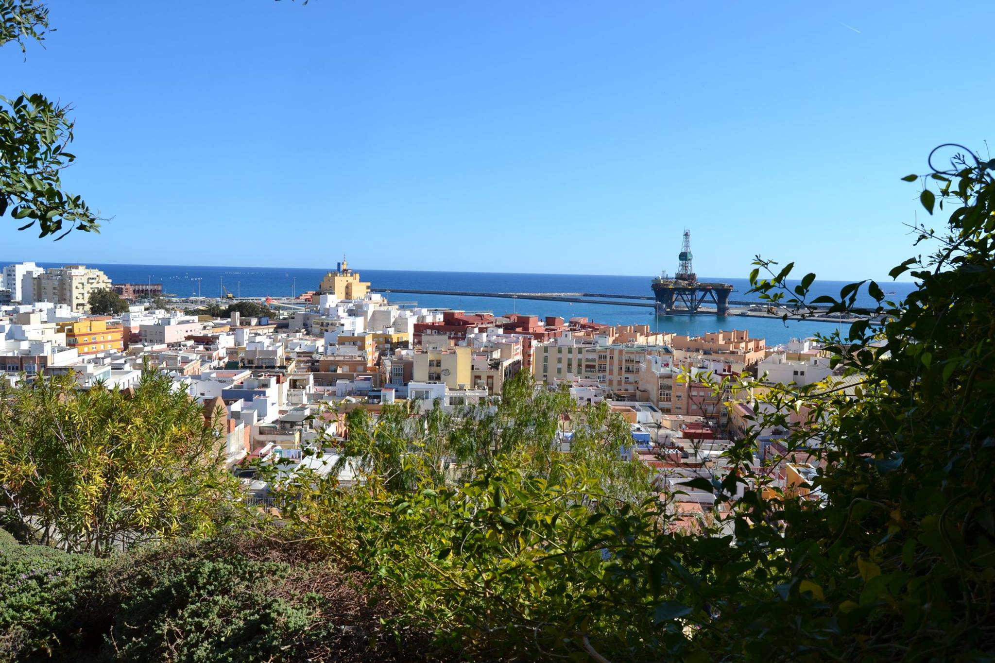 Port of Almeria